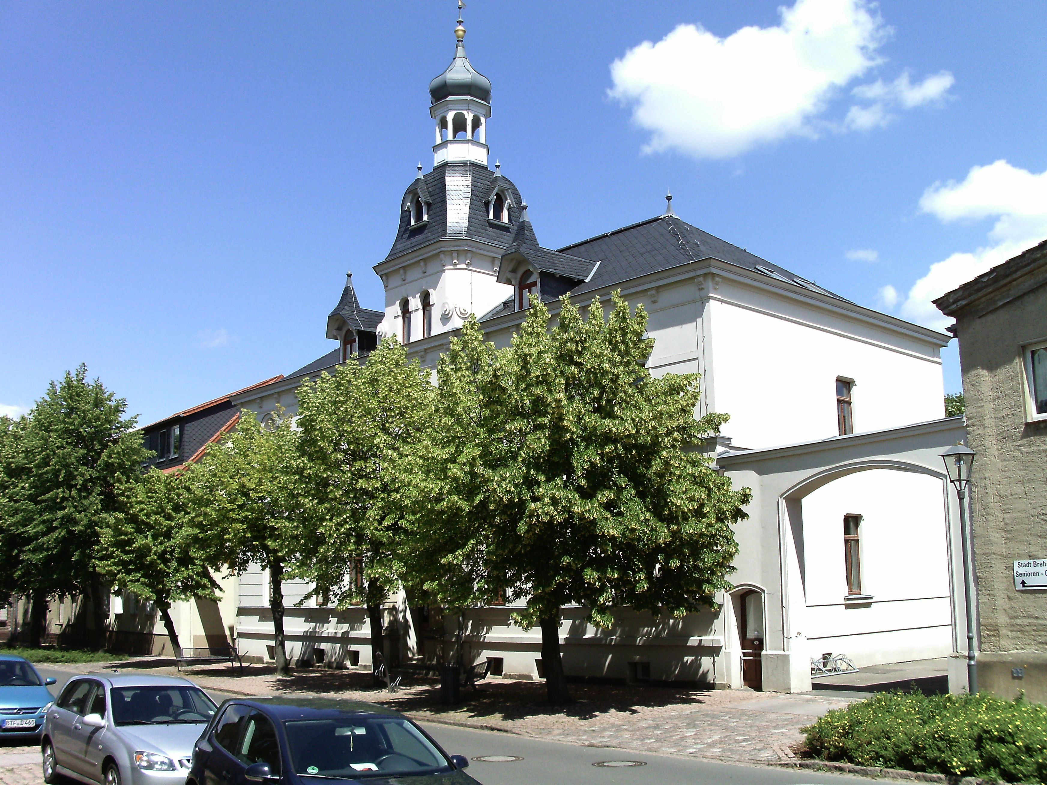 New town hall in Brehna (Sandersdorf-Brehna, Anhalt-Bitterfeld district, Saxony-Anhalt) in summer